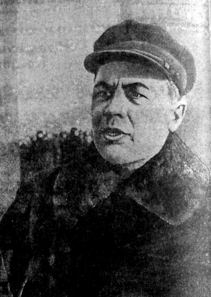 G.M.Stazevitch, 5 December 1937